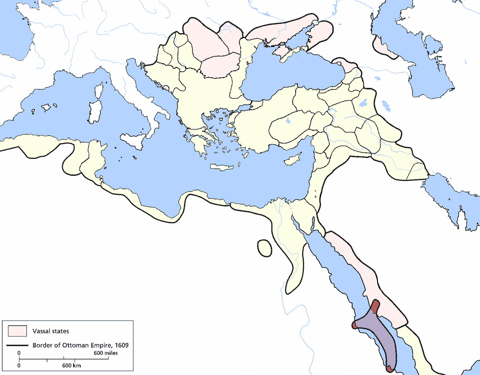 Habesh Eyalet, Ottoman Empire (1609). Source: Encyclopedia of the Ottoman Empire at Google Books By Gábor Ágoston, Bruce Alan Masters